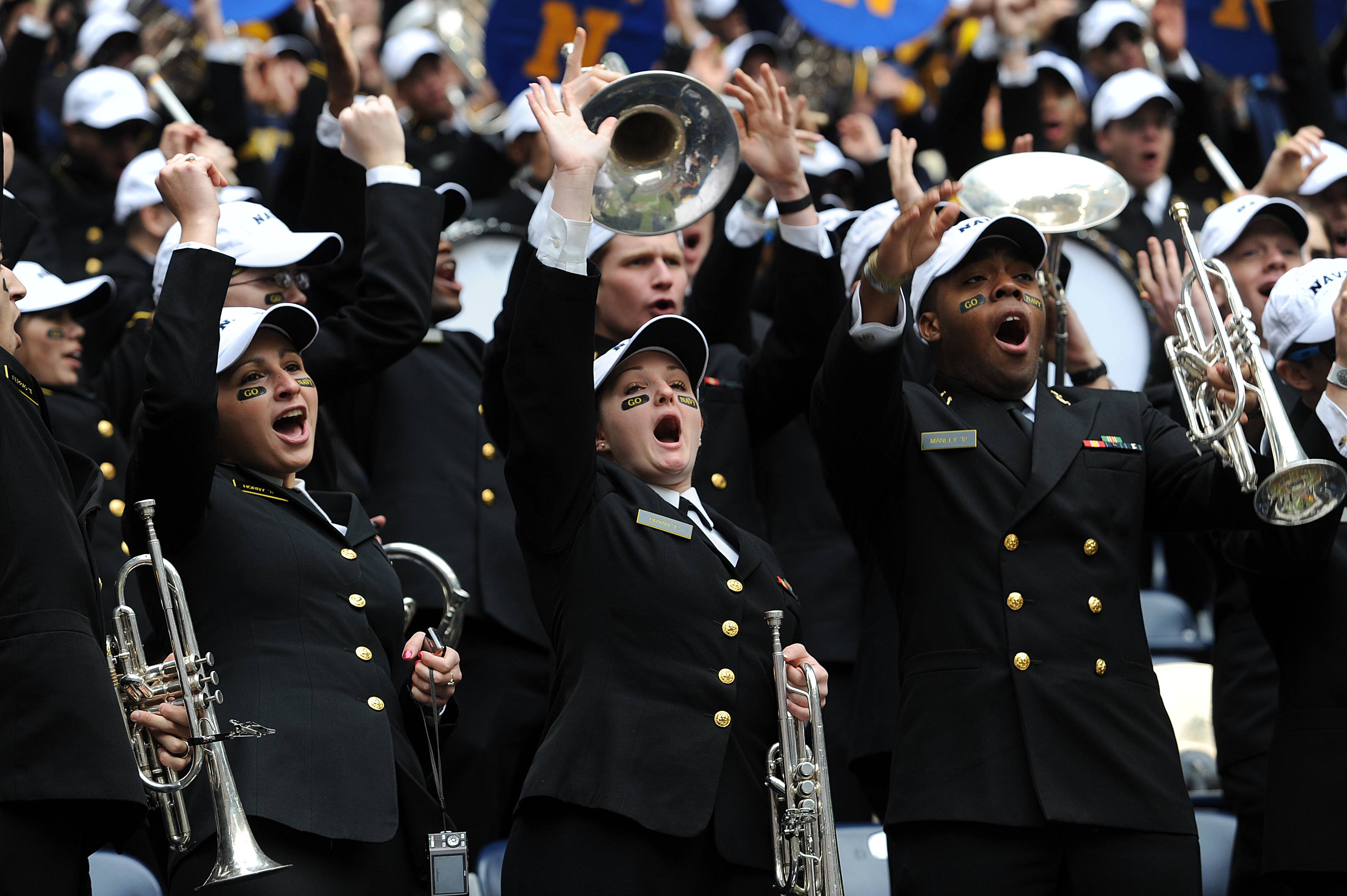 HOUSTON (Dec. 31, 2009) Members of the U.S. Naval Academy Drum and Bugle Corps celebrate during the Texas Bowl at Reliant Stadium. The Midshipmen beat the University of Missouri 35 to 13. (U.S. Navy photo by Chief Mass Communication Specialist Dennis J. Herring/Released)